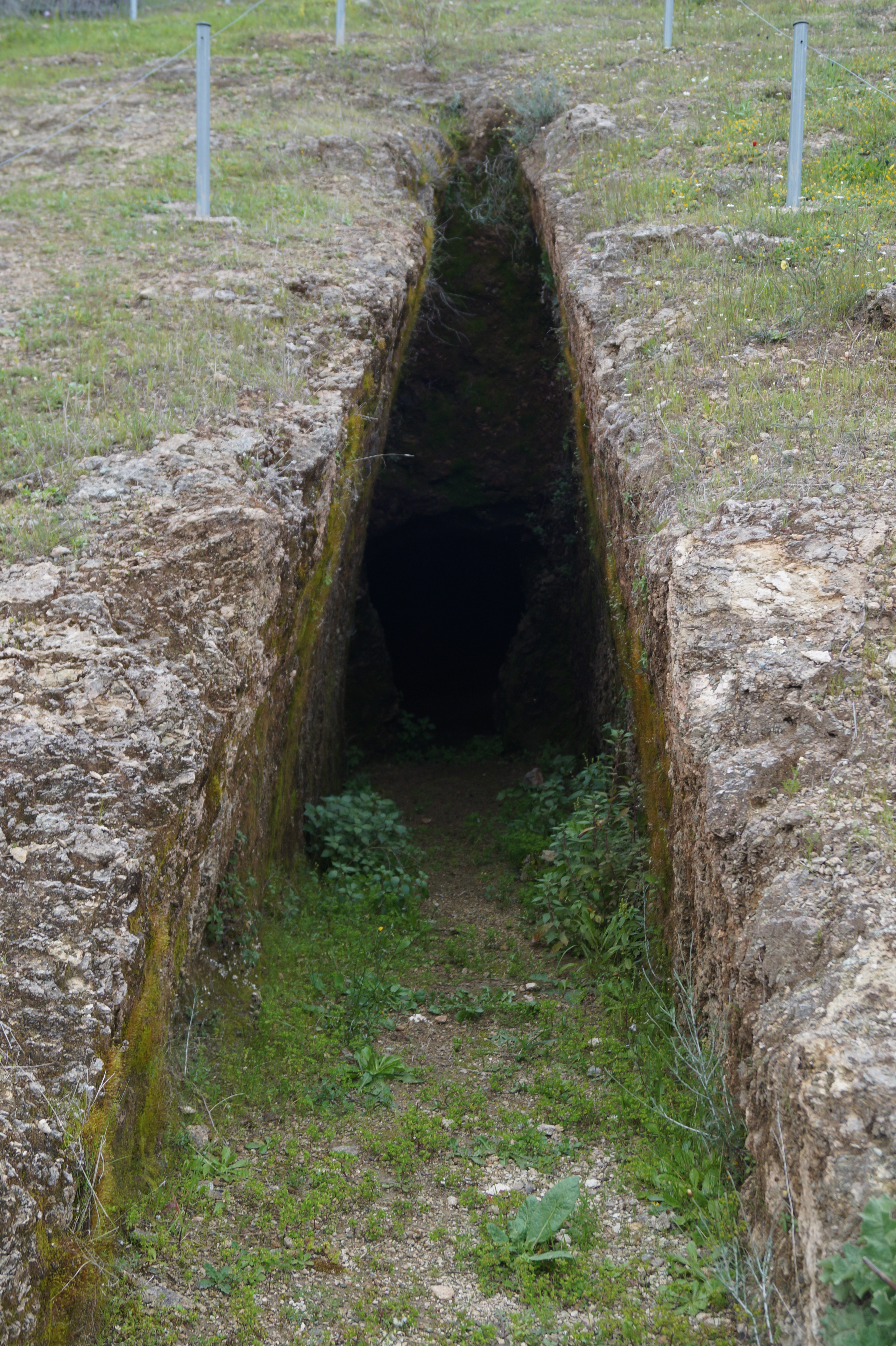 Palea Epidavros, Argolis, Greece: Mycenaean Cemetery of Paleo Epidavros, chamber tomb which is named on this plan as tomb G.